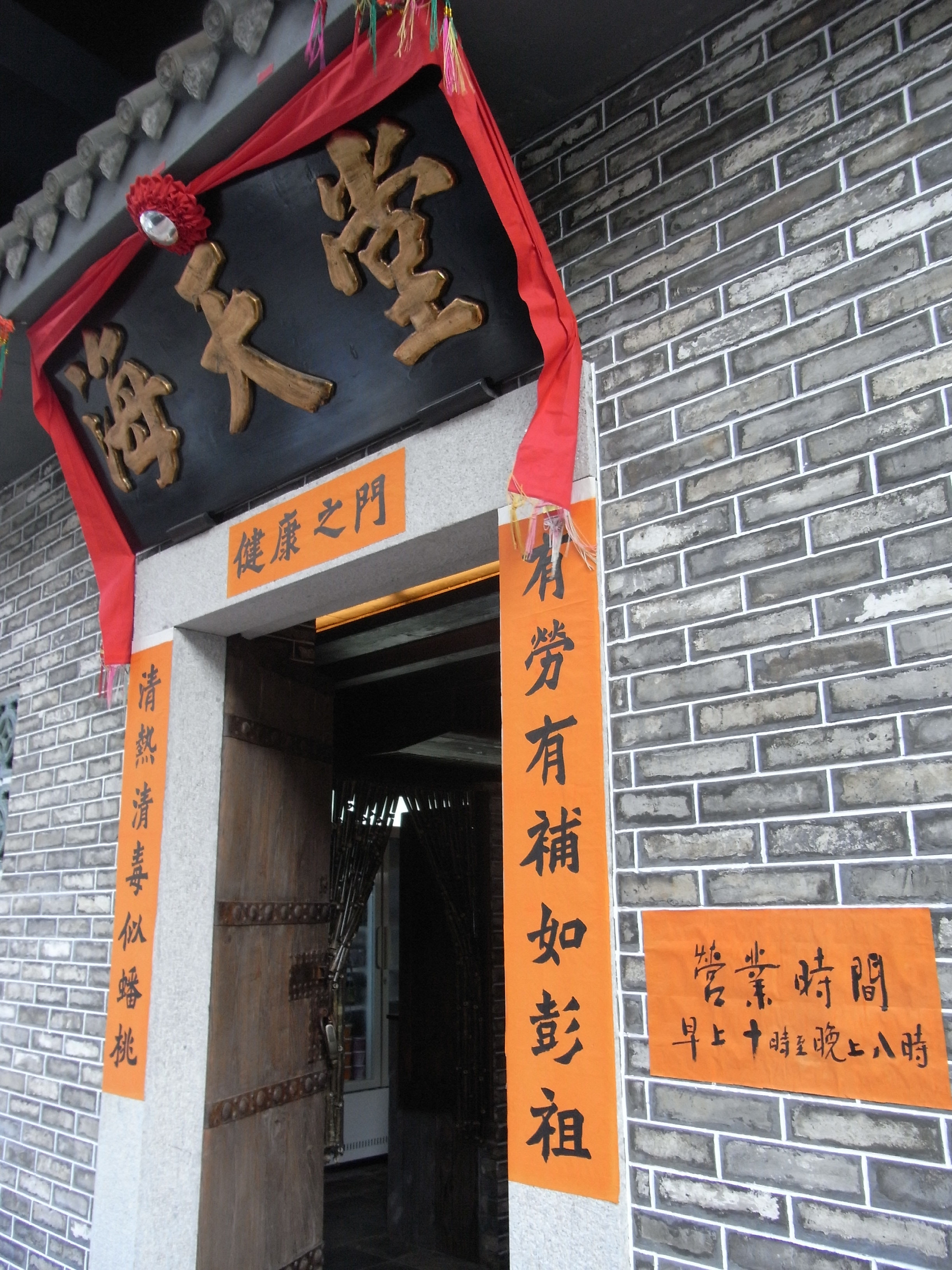 佐敦 寶靈街 海天堂分店